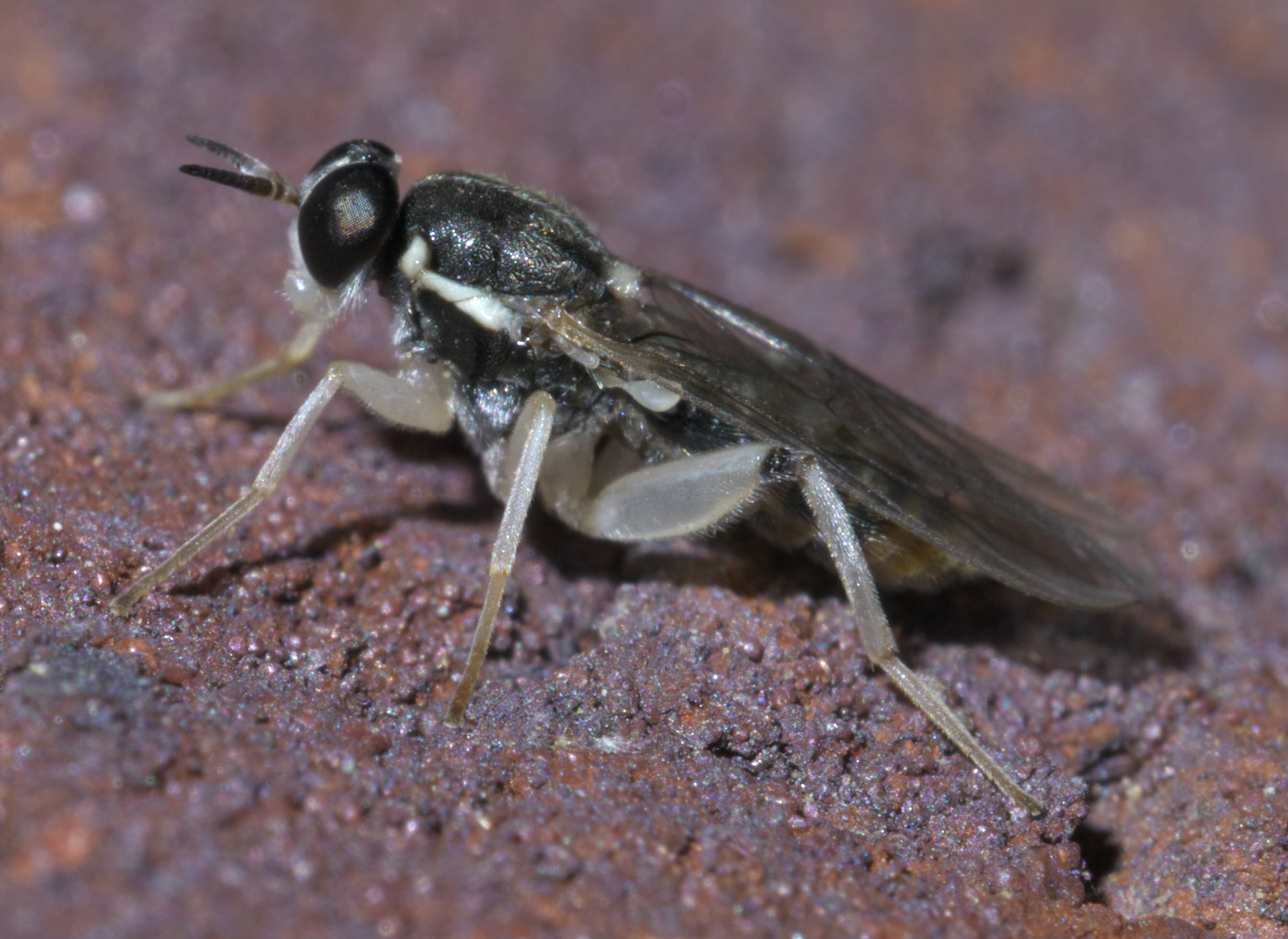 Solva pallipes, Order: Flies, Size: 7.5 mm wingtip, ID Confidence: 87